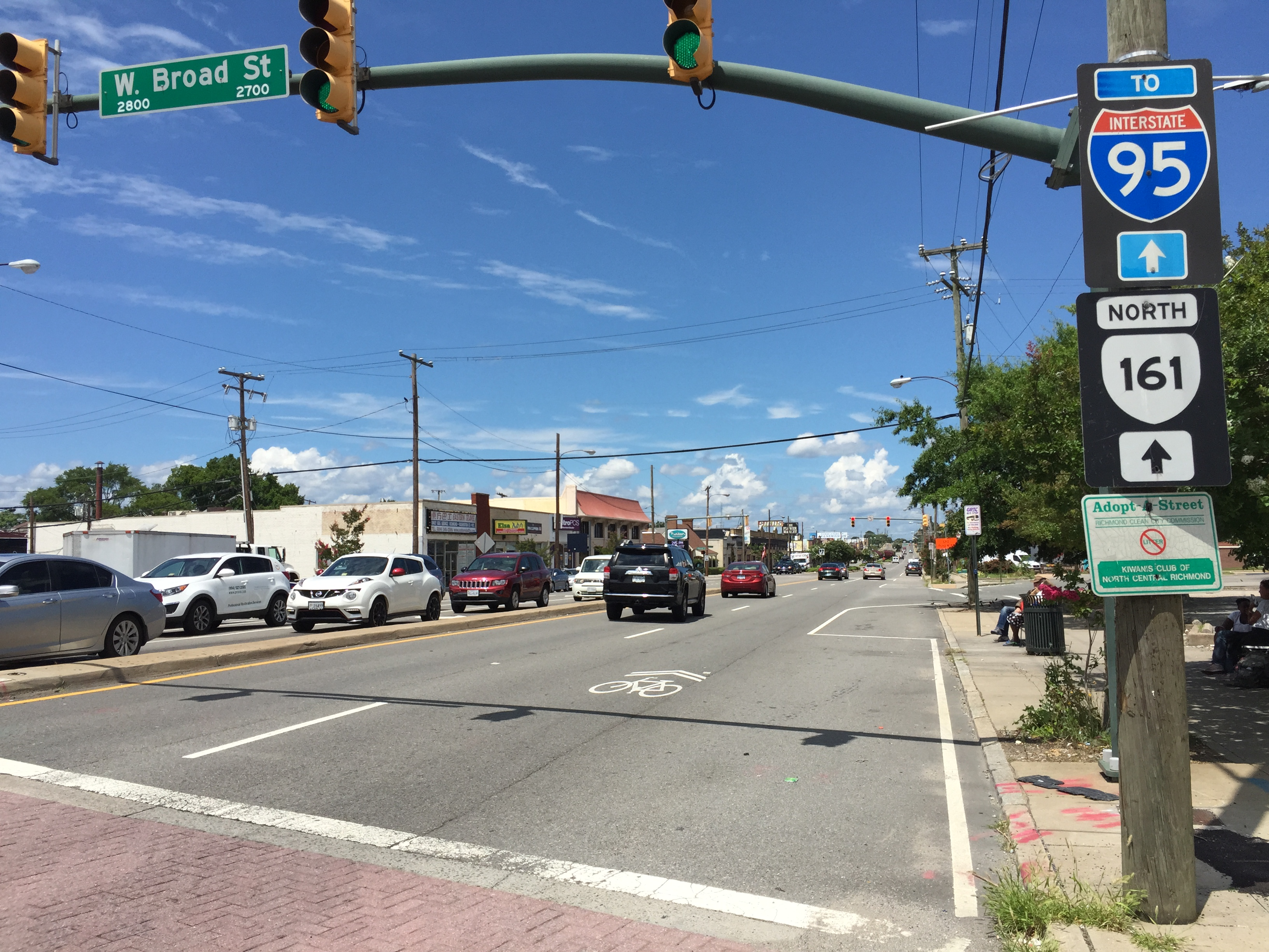 View north along Virginia State Route 161 (Boulevard) at U.S. Route 33 and U.S. Route 250 (Broad Street) in Richmond, Virginia